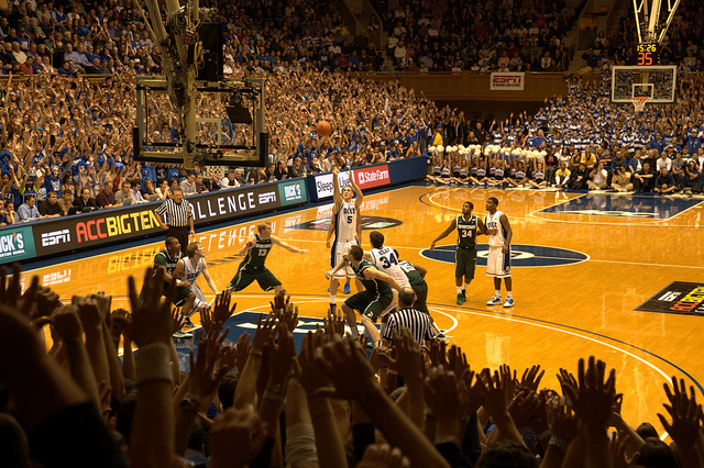 Duke basketball game at Cameron Indoor Stadium